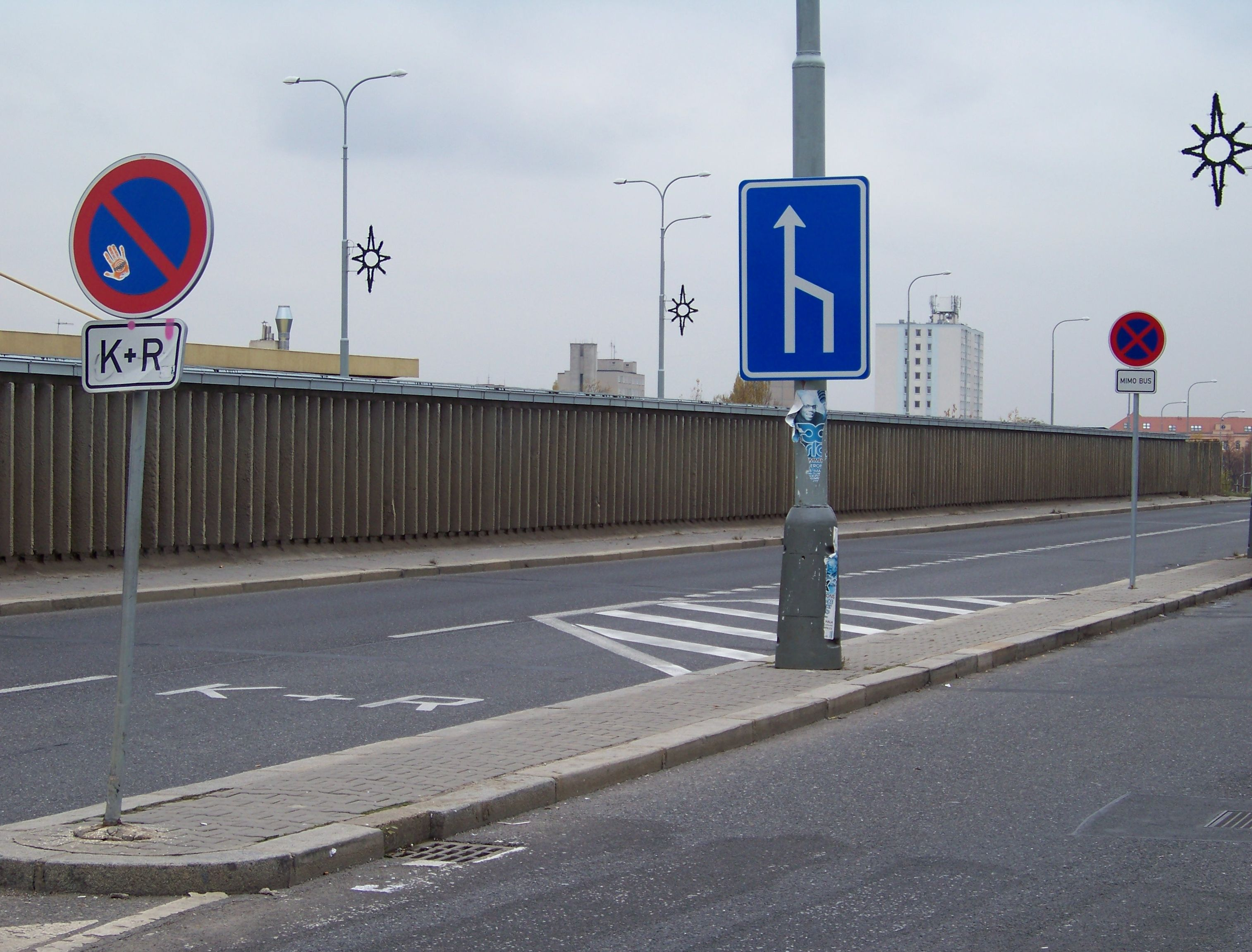 Chodov, Prague, the Czech Republic. Opatov metro station, Kiss and Ride stop place.